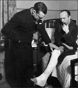 Howie Morenz at the hospital